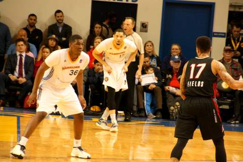 Kevon Looney (left) of Santa Cruz Warriors against Idaho Stampede